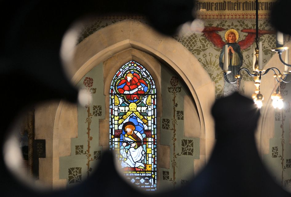 One of six windows in Christ Church Southgate dated 1861 representing some of the earliest work in stained glass by Morris Marshall Faulkner & Company. This window by William Morris and reputed to be a self portrait of the artist himself (the tracery and emblem in the quatrefoil by Philip Webb). Other windows by Ford Madox Brown, Edward Burne Jones and Dante Gabriel Rossetti.